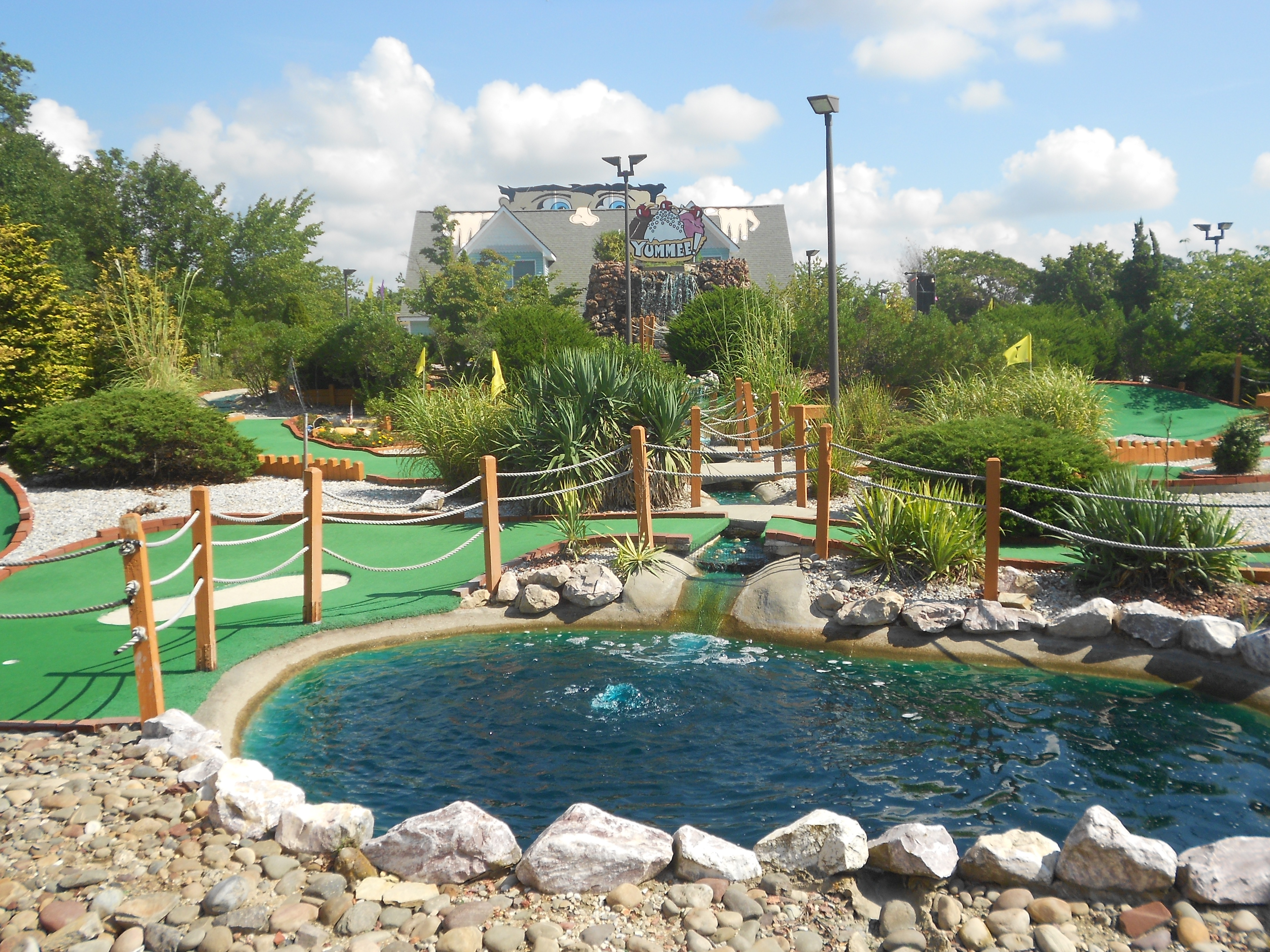 A putt-putt "golf course" in the unincorporated census-designated place, Rio Grande, Cape May County, New Jersey along SR 47 (Delsea Drive) across from the Bible Baptist Church